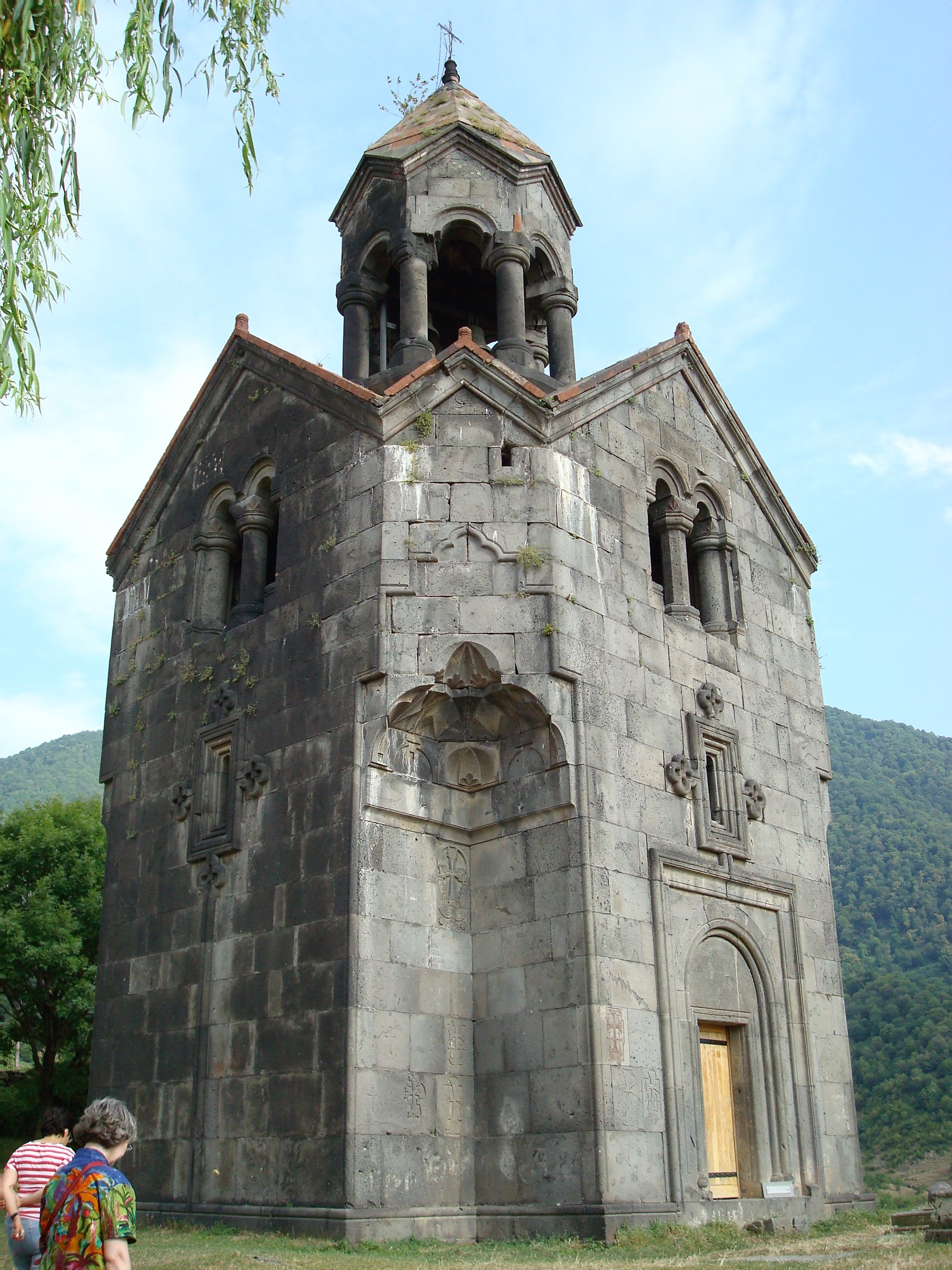 Belltower in Haghpat in Armenia